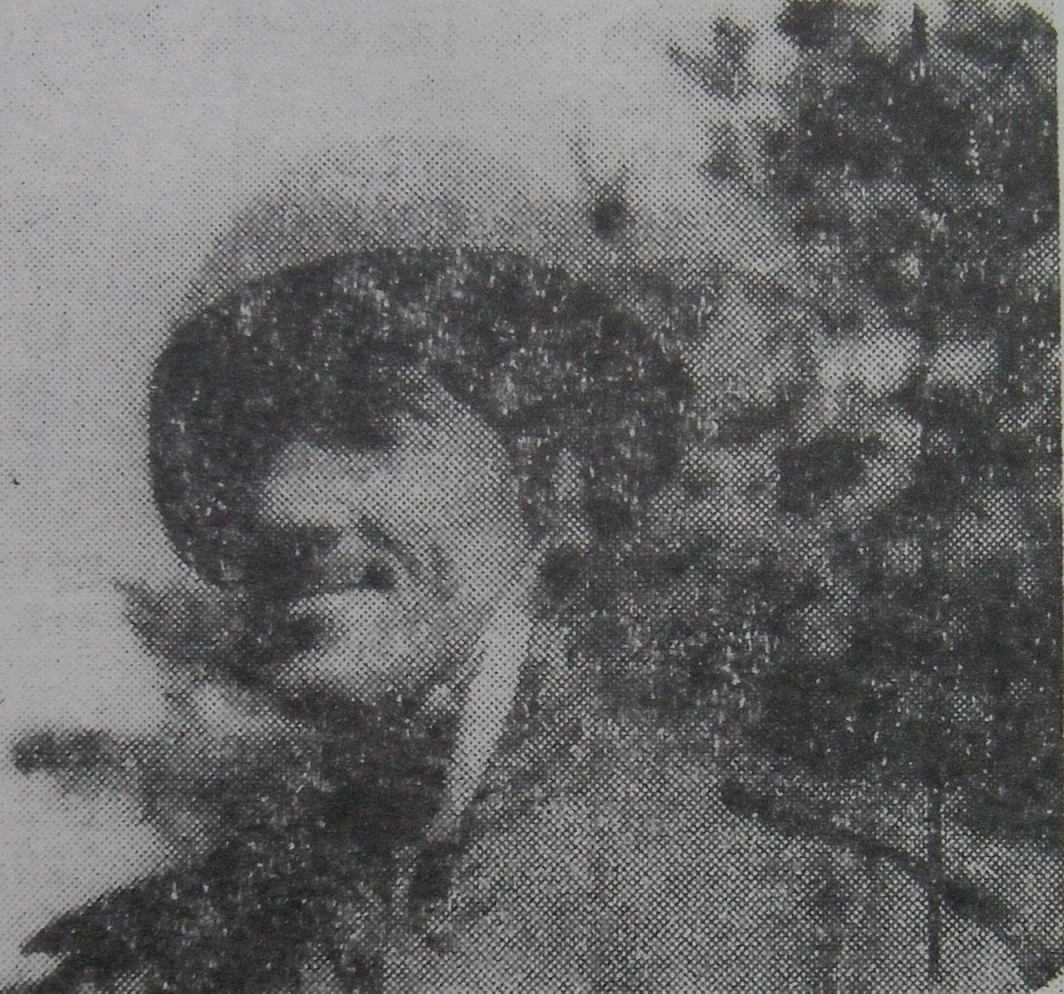 Jugoslovenski revolucionar Dragan Ozren na Ukrajinskom frontu